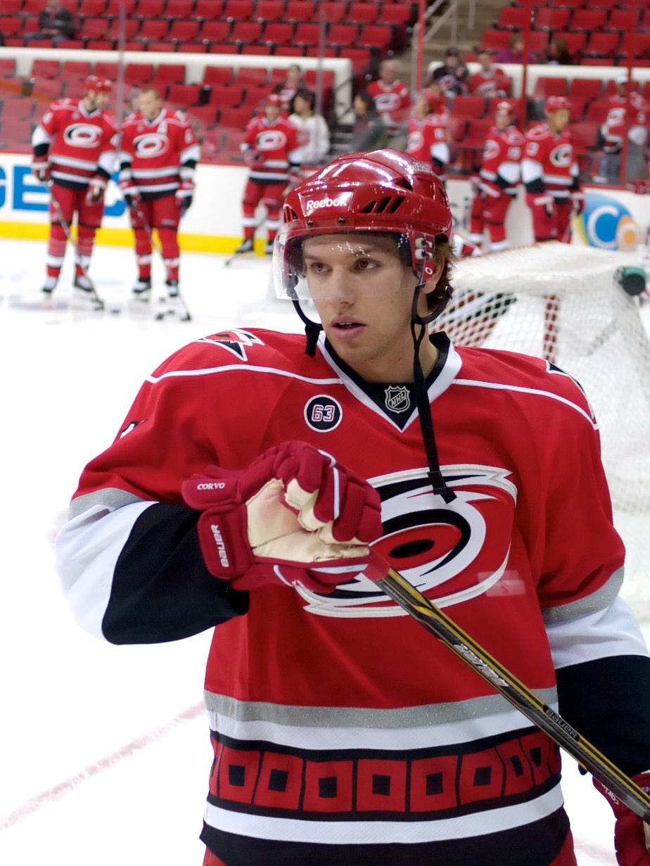 Zach Boychuk, Canadian ice hockey centre